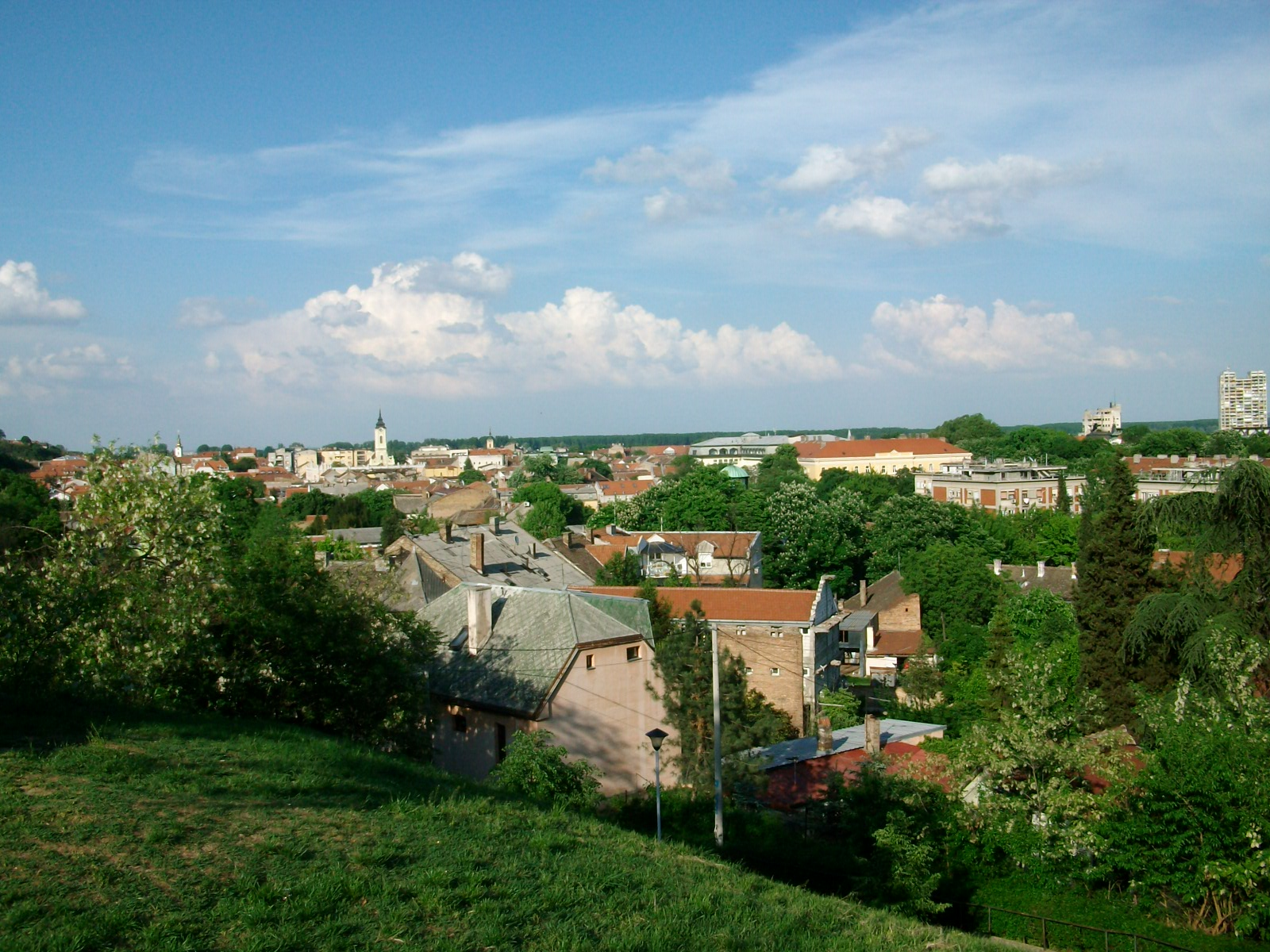 View from Kalvarija onto old town Zemun